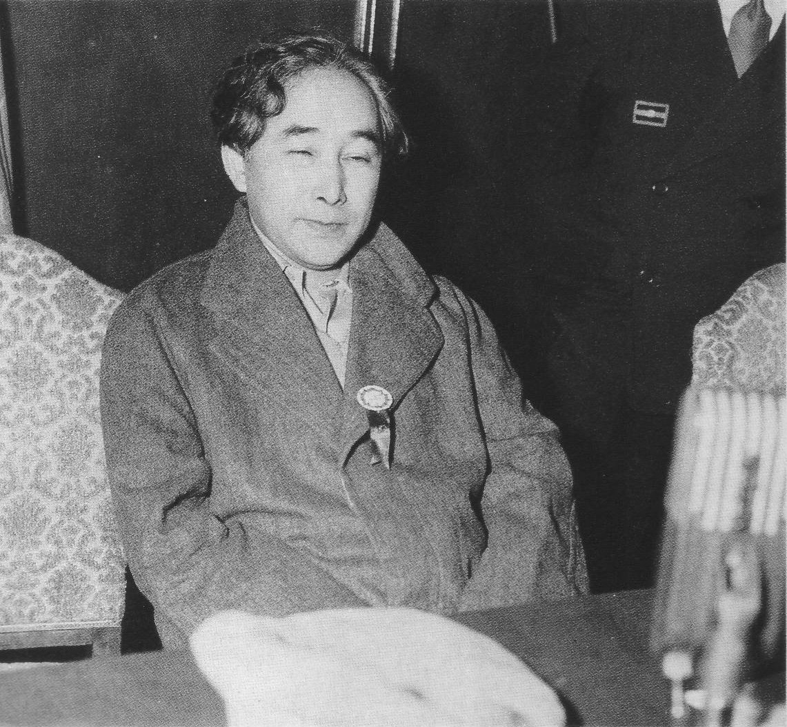 Wataru Kaji (Japanese novelist).